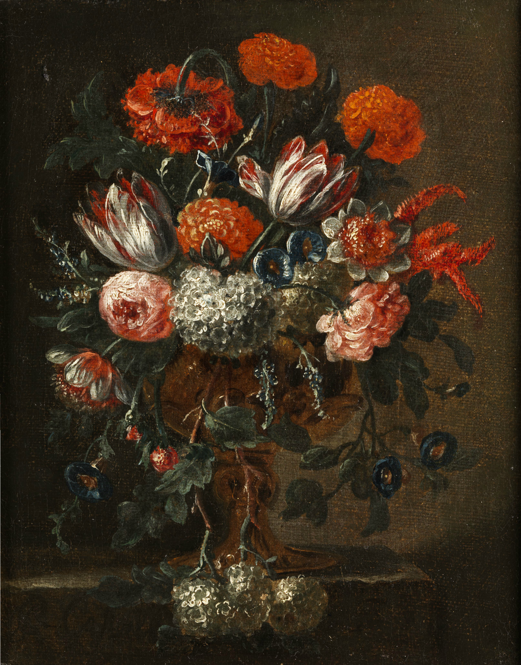 Still life with flowers. Oil on canvas. 26 x 20.5 cm